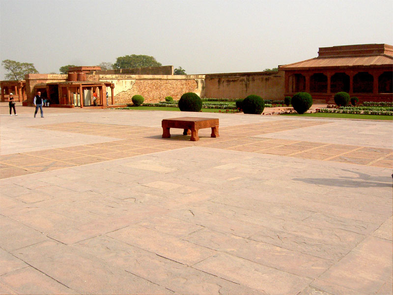 Pachisi board on the Courtyard of the Fatehpur palace (India). White transparent added for contrast.